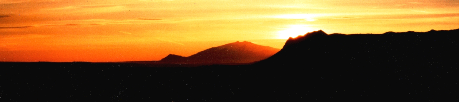 Sunset towards Snæfellsnes Vulcan